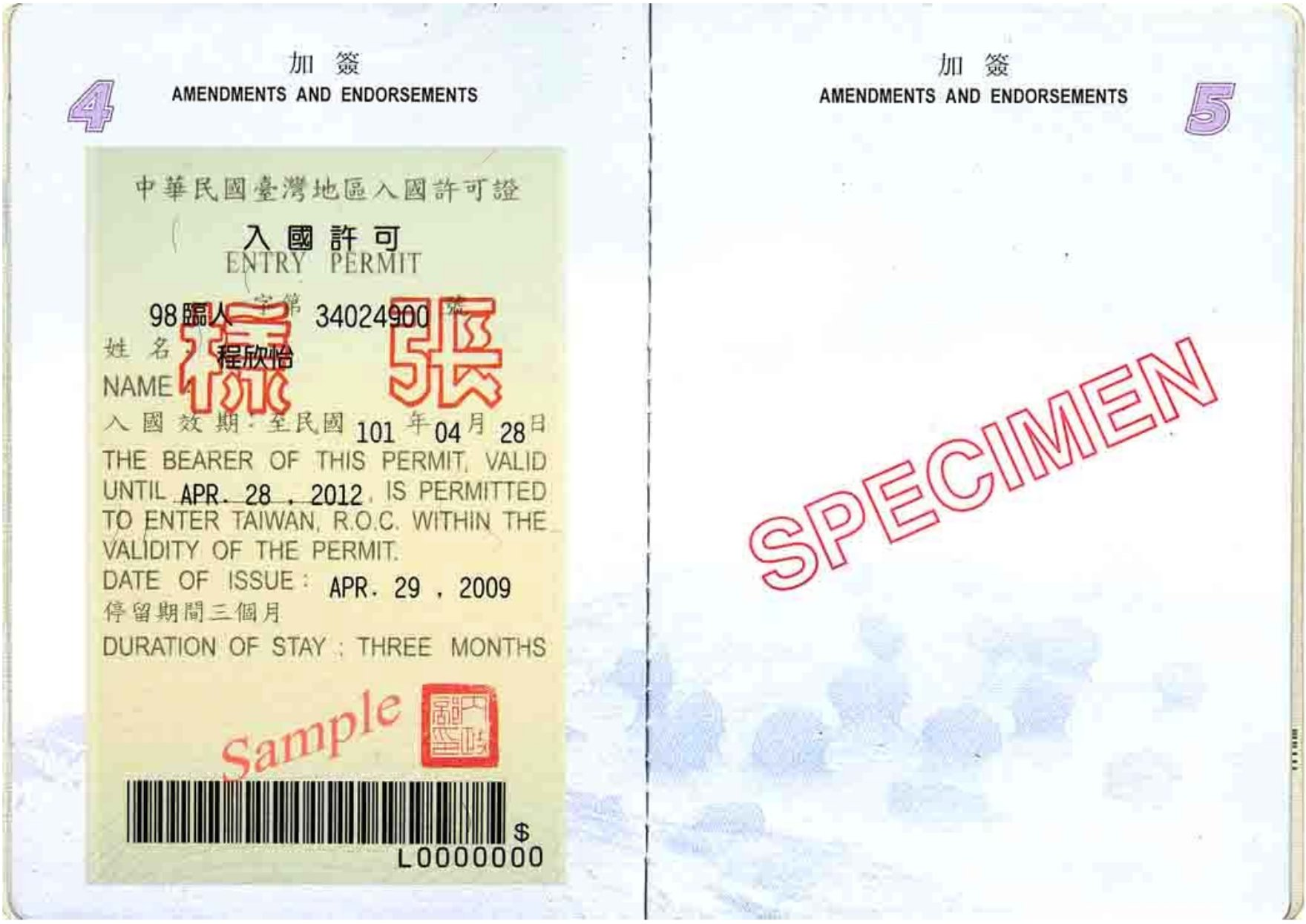 Republic of China Taiwan Area Entry Permit.